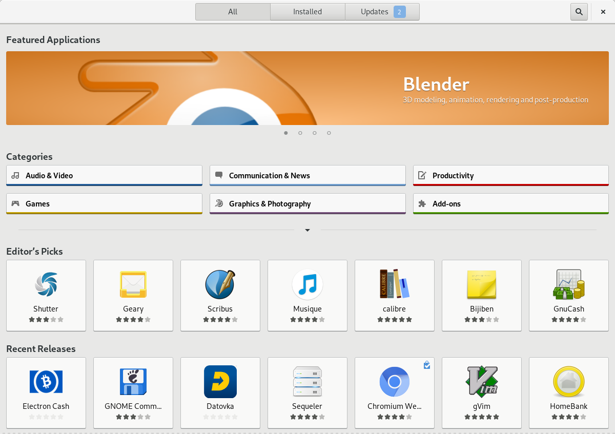 GNOME Software 3.30.6 on Fedora 29